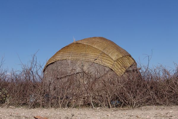 A traditional Somali nomad's hut (aqal) near Boorama. Image taken by Charles Fred on flickr. The creator has granted GFDL licensing and permission for use in the wikimedia project.